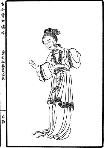 The Wife Of Cao Wenshu